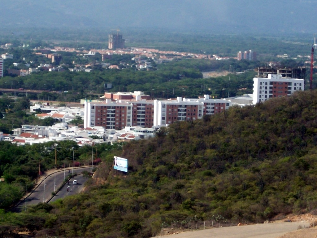 San Isidro Complex - Cúcuta, Colombia